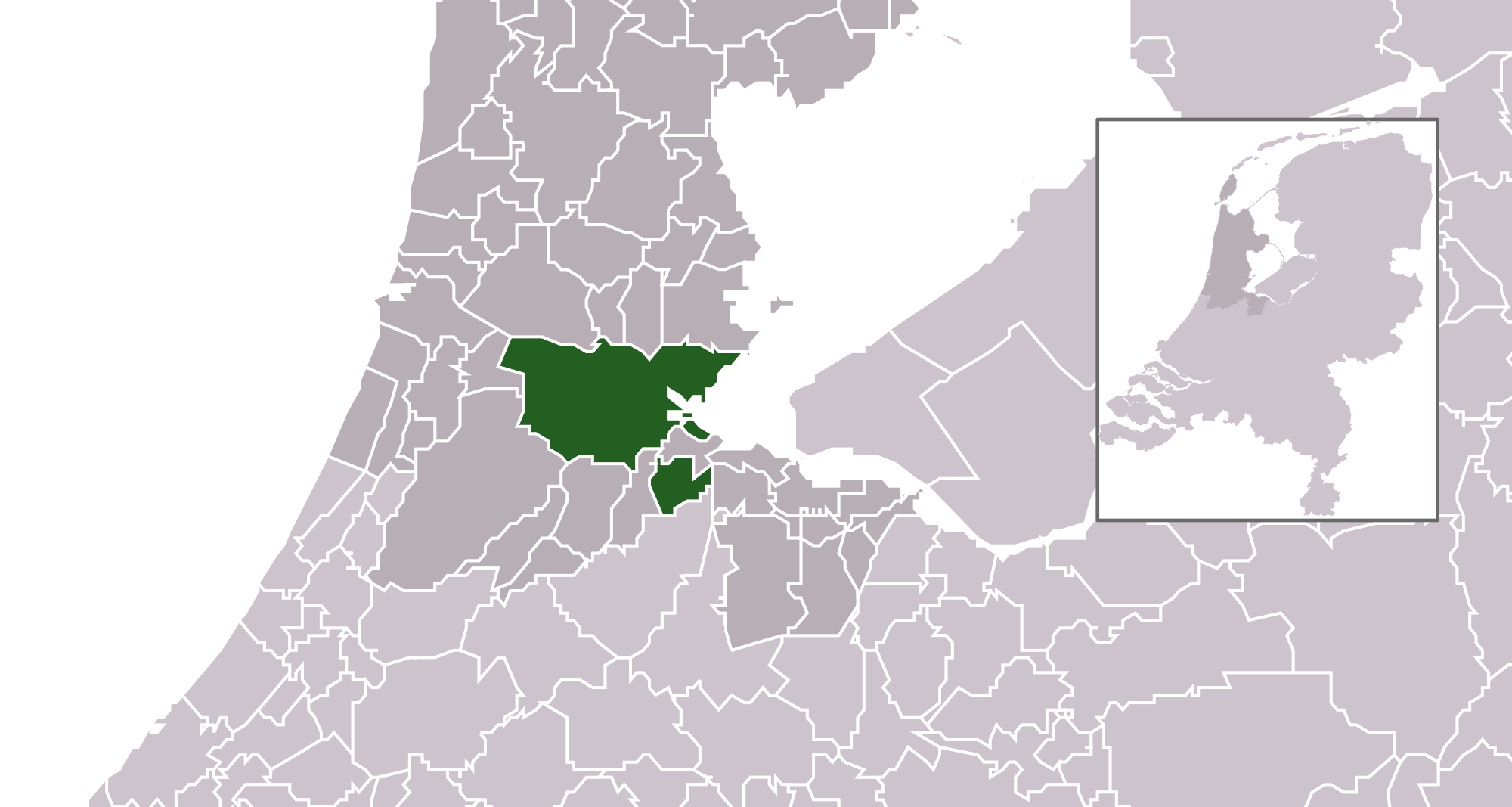 Location maps for the 441 municipalities in the Netherlands. Boundaries 1/1/2009 Automatically generated with script File name contains "Municipality code" (CBS-code) as specified in: [1] Created in svg using coordinate data derived from ESRI data published by Centraal Bureau voor de Statistiek, Voorburg/Heerlen. ([2]) Color coding and original design (slightly adpated by me) by user Mtcv (2006/2007) ([3]) Updated until January 1, 2014 The copyright holder of this file, Centraal Bureau voor de Statistiek, allows anyone to use it for any purpose, provided that the copyright holder is properly attributed. Redistribution, derivative work, commercial use, and all other use is permitted. Attribution: Centraal Bureau voor de Statistiek This work is free and may be used by anyone for any purpose. If you wish to use this content, you do not need to request permission as long as you follow any licensing requirements mentioned on this page.